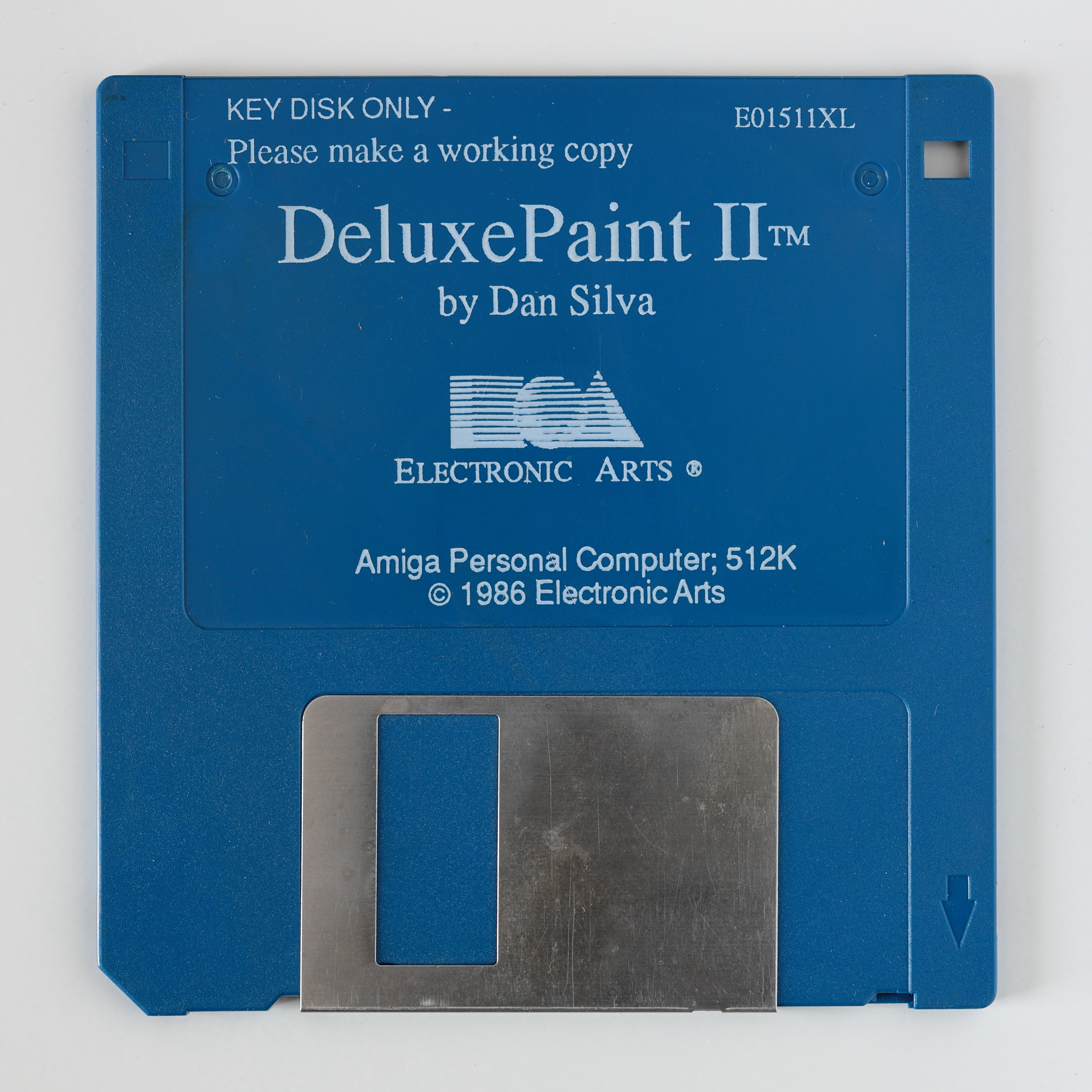 An original diskette for Deluxe Paint II software by Dan Silva, published by Electronic Arts. The copyright date says 1986 and shows the original logo of Electronic Arts. This diskette came with a Commodore Amiga 500 purchased in the early 1990s.